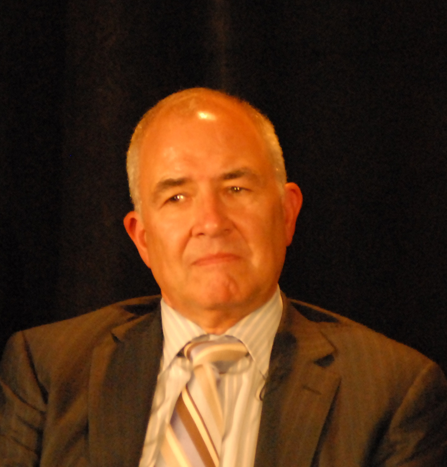 Photograph of Paul Volberding, AIDS researcher, Director of Research, Global Health Sciences, discussing "The Evolution of HIV/AIDS Therapies" at the Gordon and Betty Moore Foundation in Palo Alto, CA, December 4, 2012, for Chemical Heritage Foundation, Philadelphia, PA, USA.